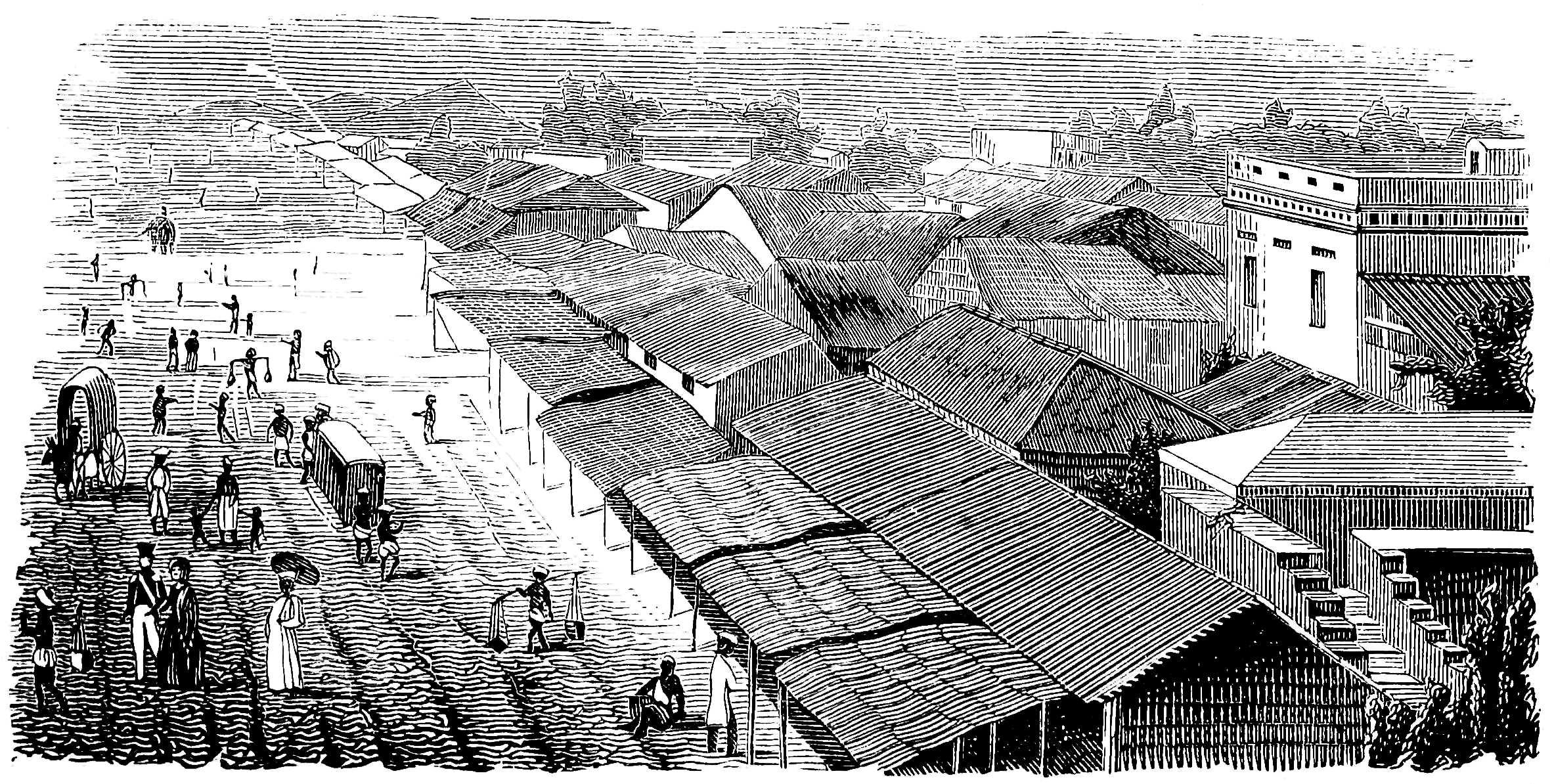 Bazaar of Hindu town, Coimbatore, India.